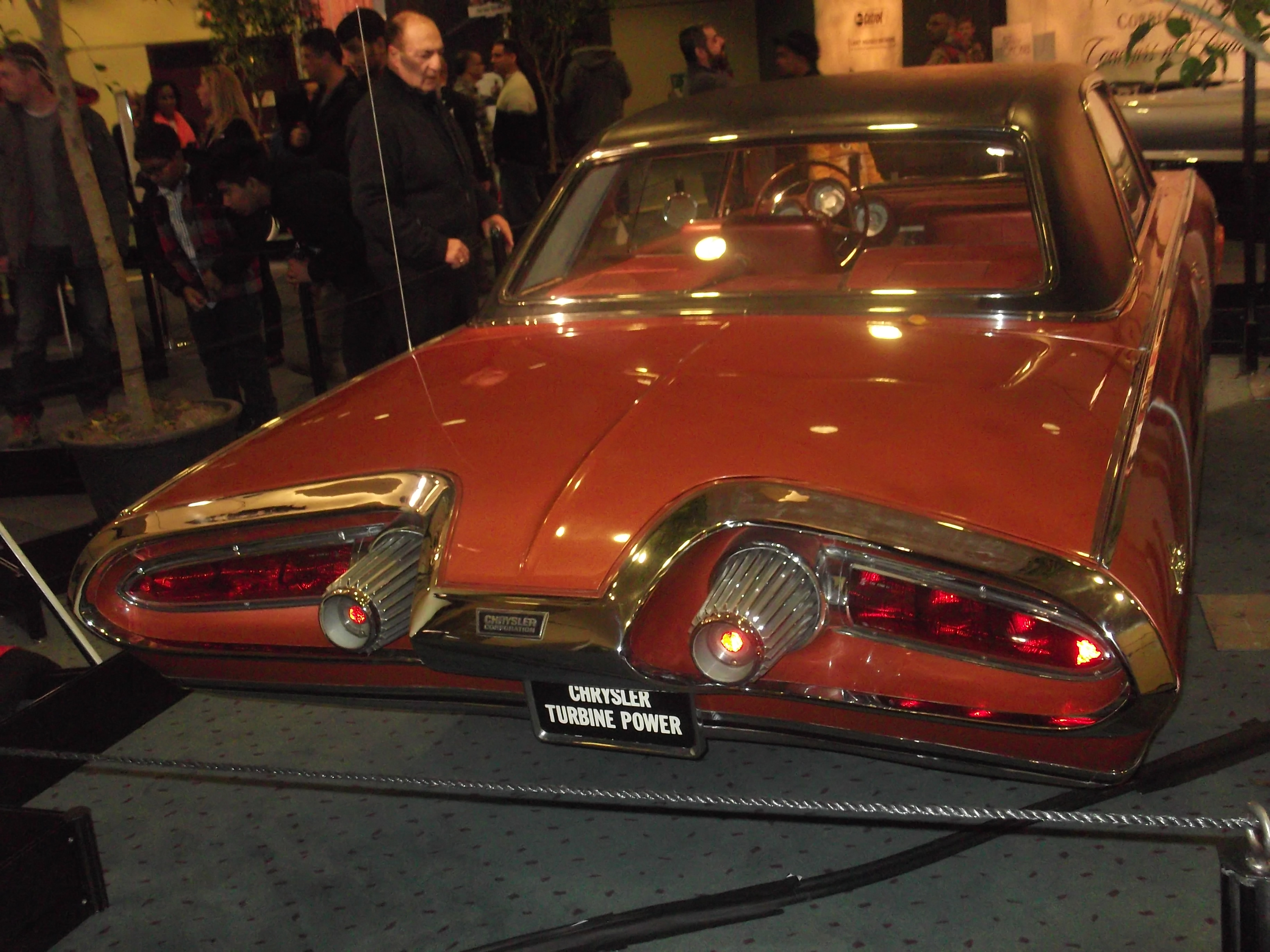 View of the exhaust of the Chrysler Turbine car, on display at the 2015 CIAS in Toronto.